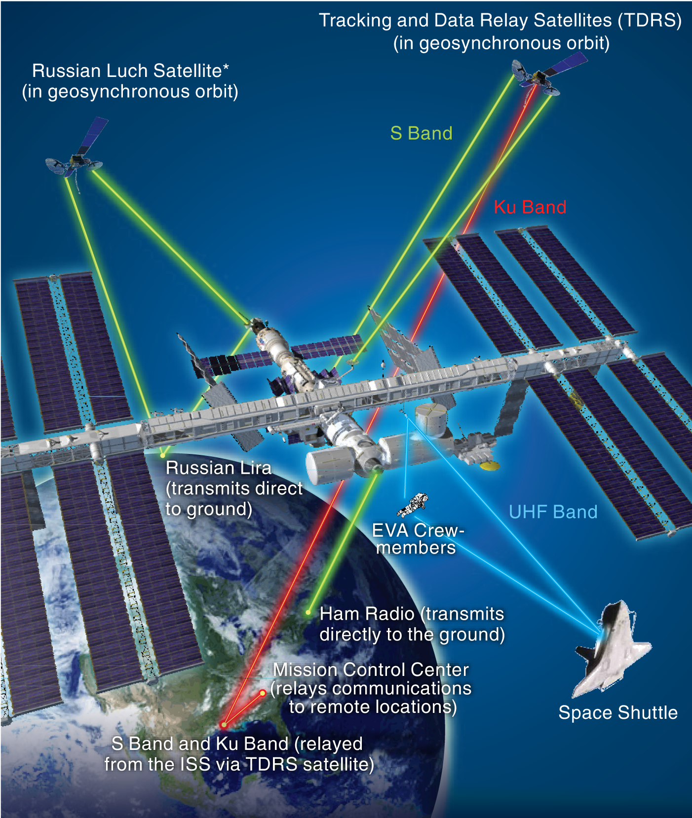 A diagram showing the various systems used by the International Space Station to communicate with the ground, spacewalking astronauts and other spacecraft.